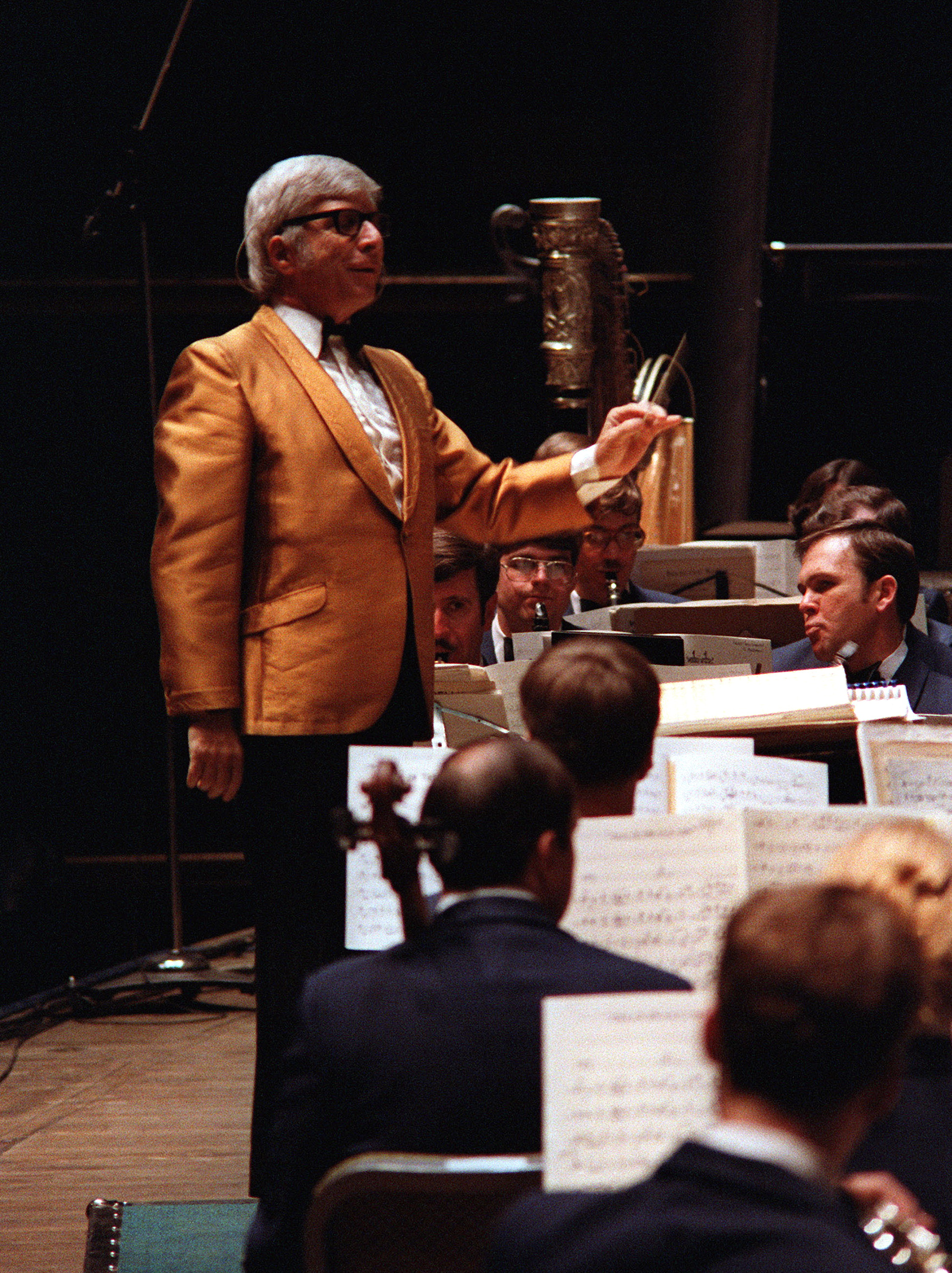 Guest artist Elmer Bernstein conducts the United States Air Force Band in the last of a series of spring concerts at Constitution Hall.